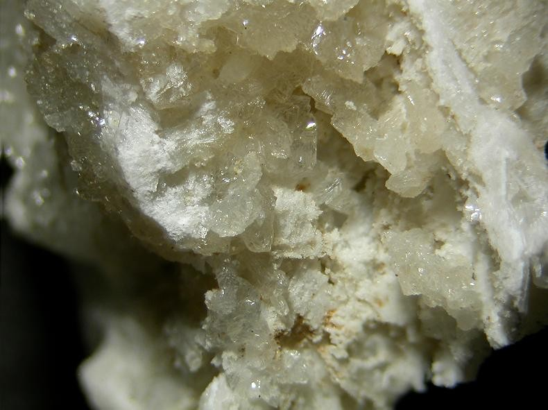 Nordstrandite Locality: Langesundsfjorden, Larvik, Vestfold, Norway (Locality at ) Field of view 6 mm. Specimen and photo Leon Hupperichs.